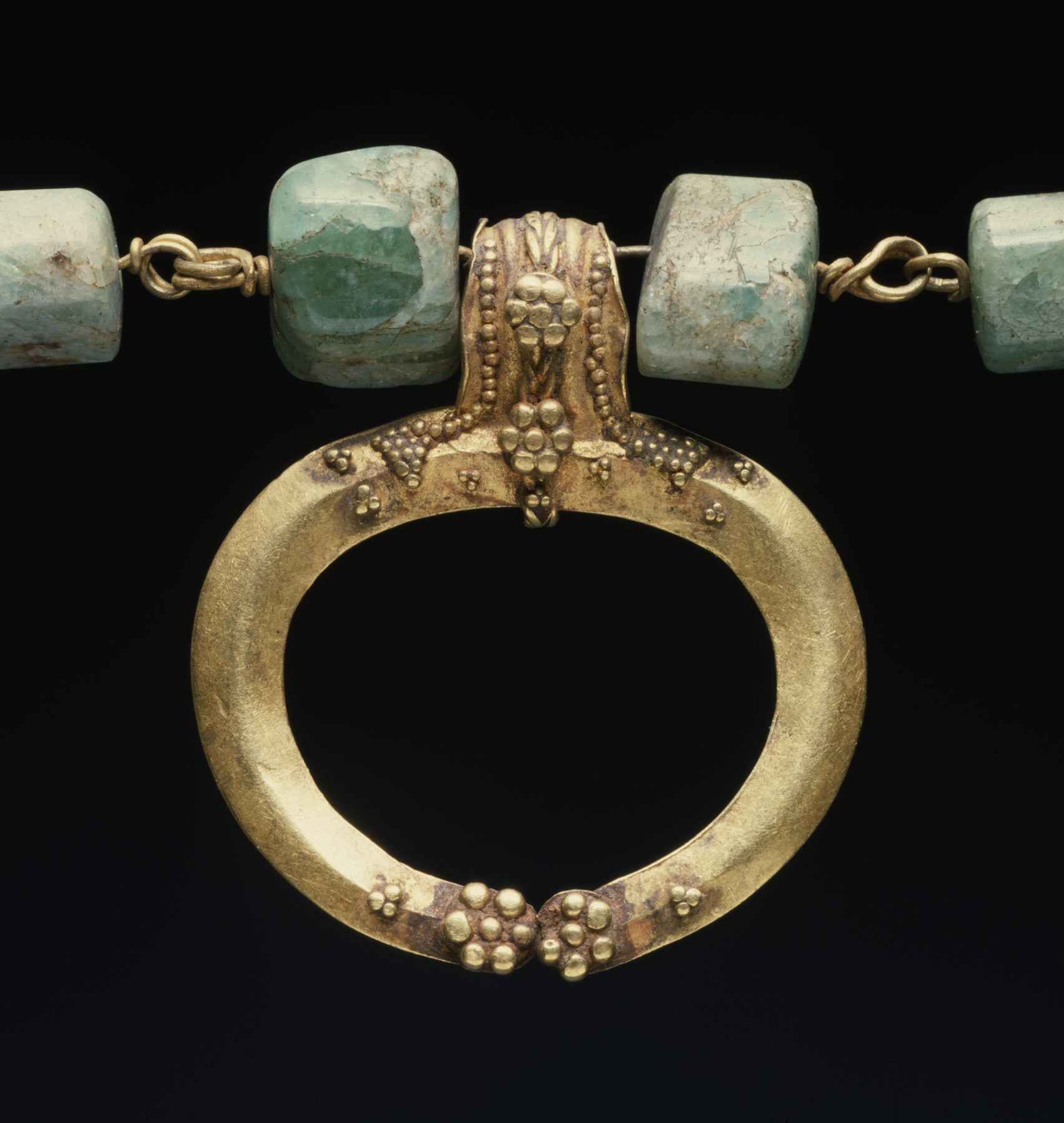 This necklace is composed of chain links and is decorated wtih filigree.